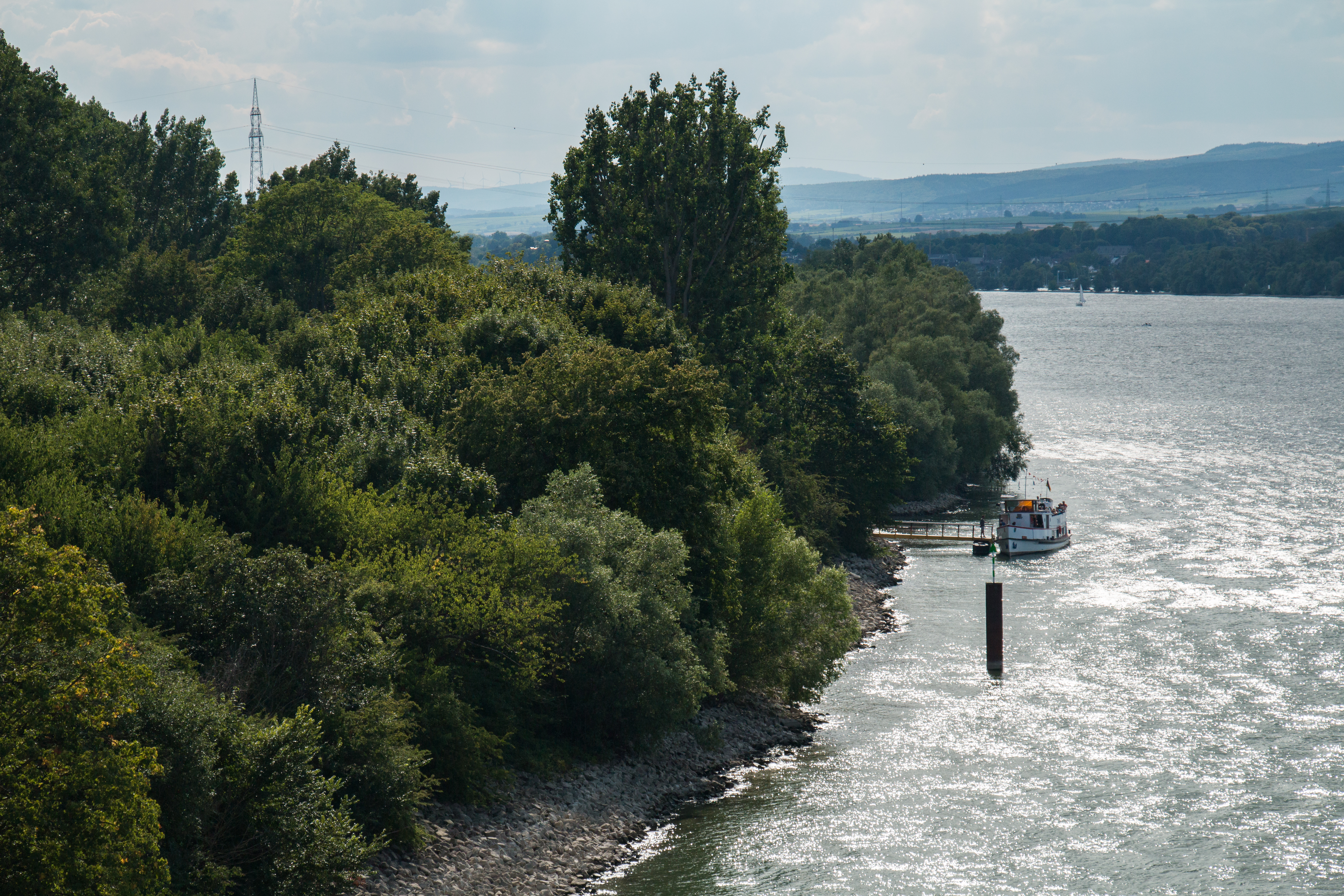 The Rettbergsaue with the ferry ship Tamara